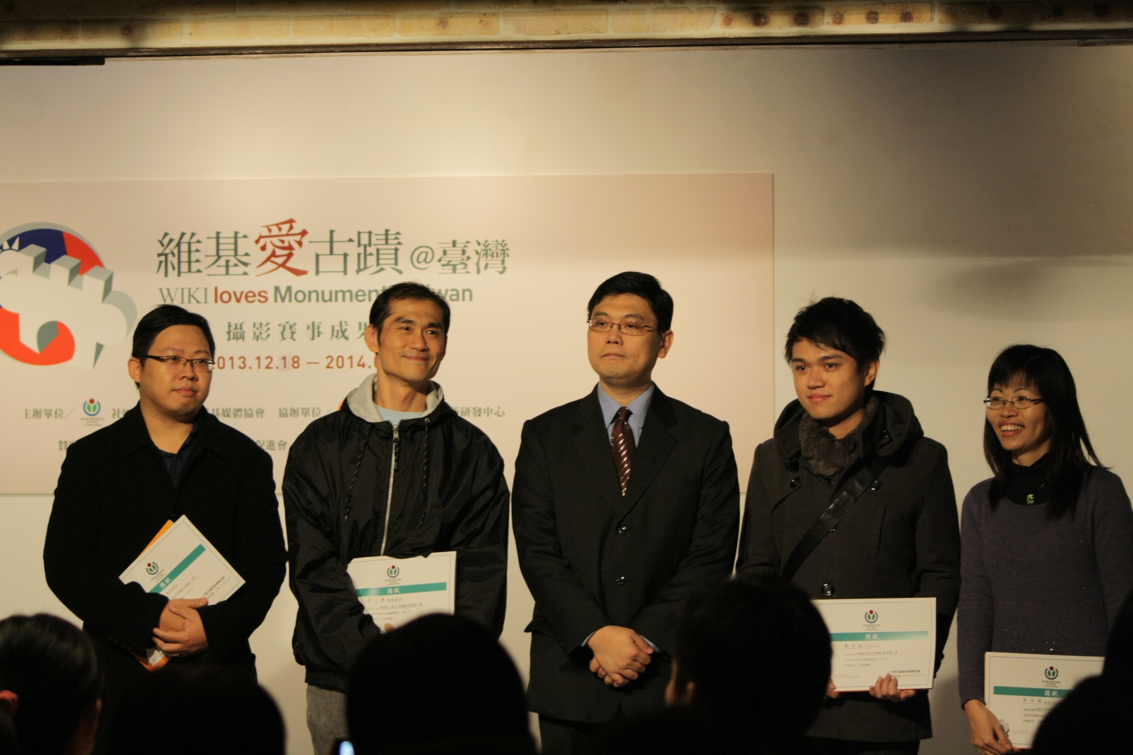 維基愛古蹟.台灣頒獎典禮